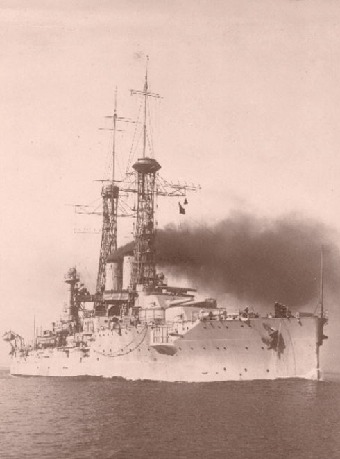 Battleship USS Utah.jpg Original caption: "The USS Utah, sunk in the attack on Pearl Harbor in 1941, nevertheless saw great heroism as Chief Petty Officer Peter Tomich evacuated the boiler rooms and in doing so, lost his life to save others. –photo courtesy Naval History & Heritage Command"